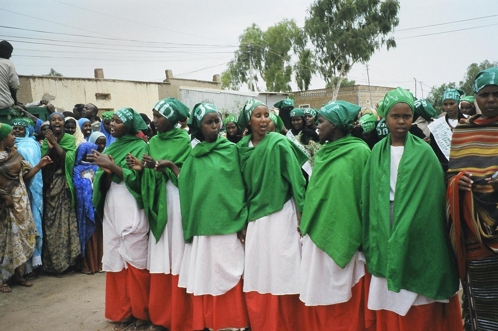 Women in the Somaliland, wearing the colors of the Somaliland flag, participating in a parade for UCID party prior to parliamentary elections in 2005 Original description: girls wearing the colors of the somaliland flag